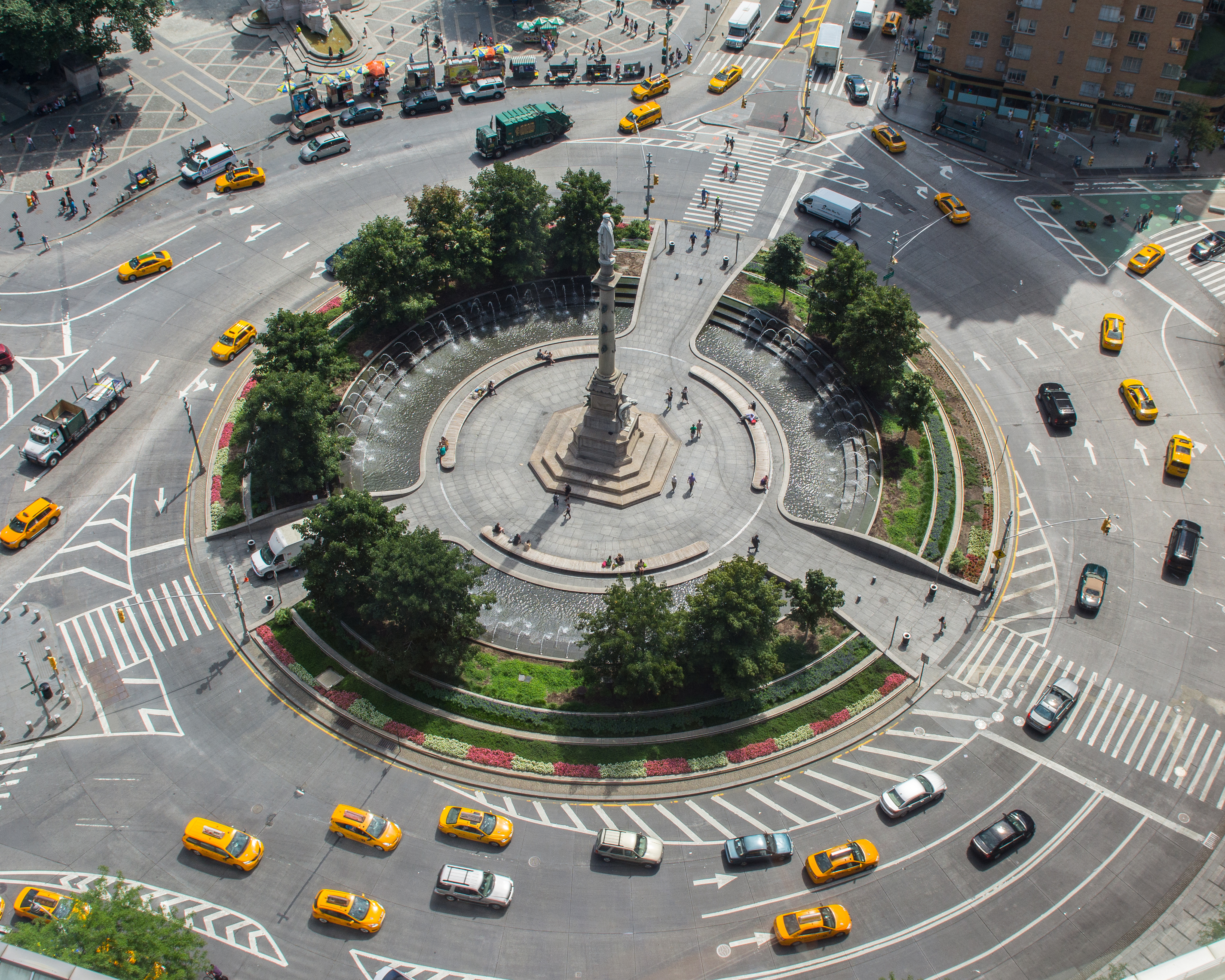 NYC's Department of Design and Construction managed the reconstruction of Columbus Circle plaza.